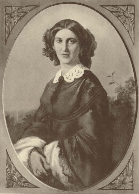 Johanna von Bismarck 1857 after a painting of Professor Jakob Becker.